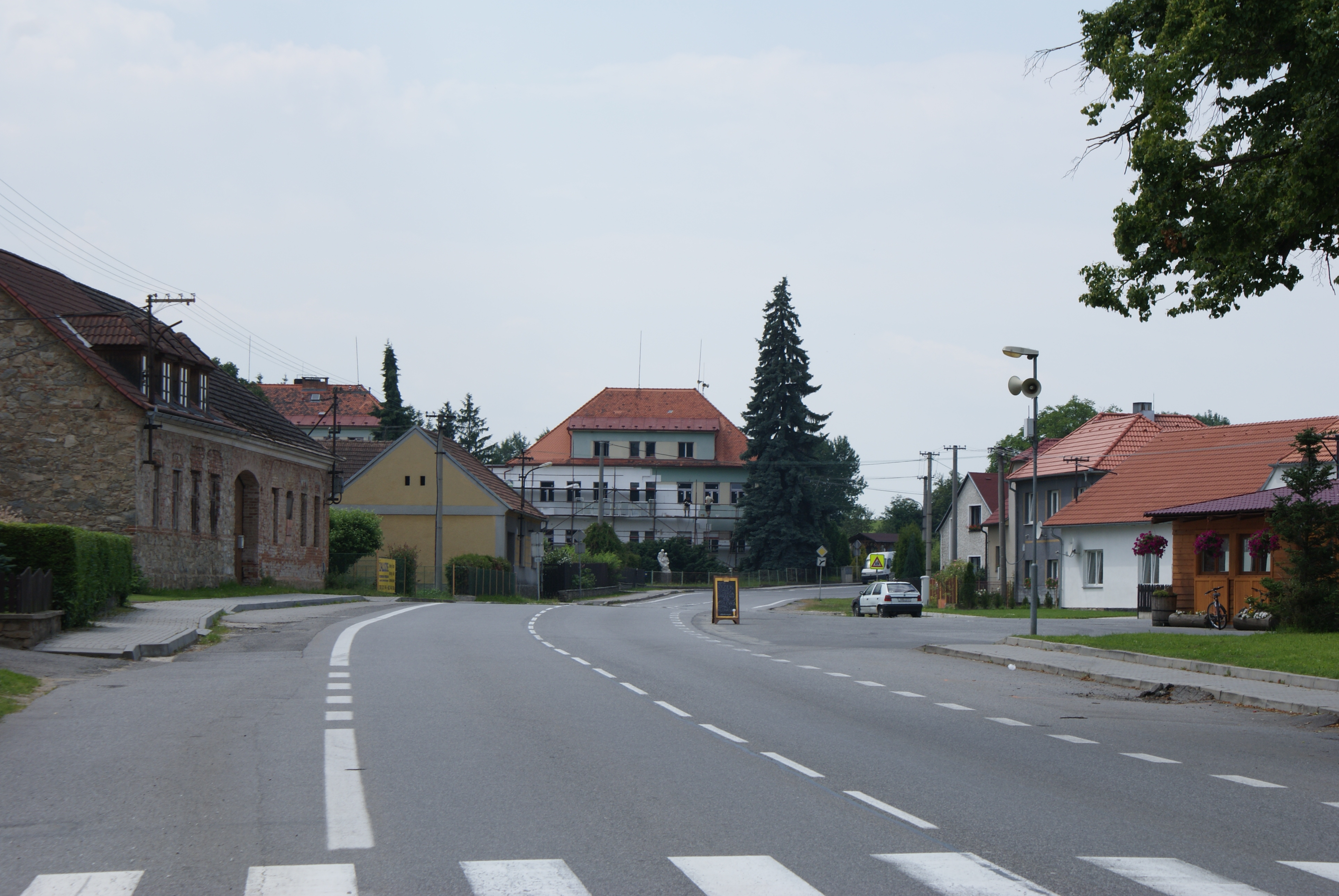 Cehnice, a village in Strakonice district, Czech Republic. A school building on the village common. Česky: Cehnice, okres Strakonice, škola na návsi